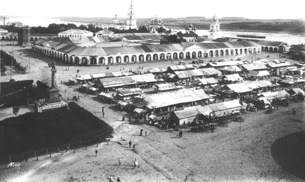 Gostiny Dvor in Kostroma